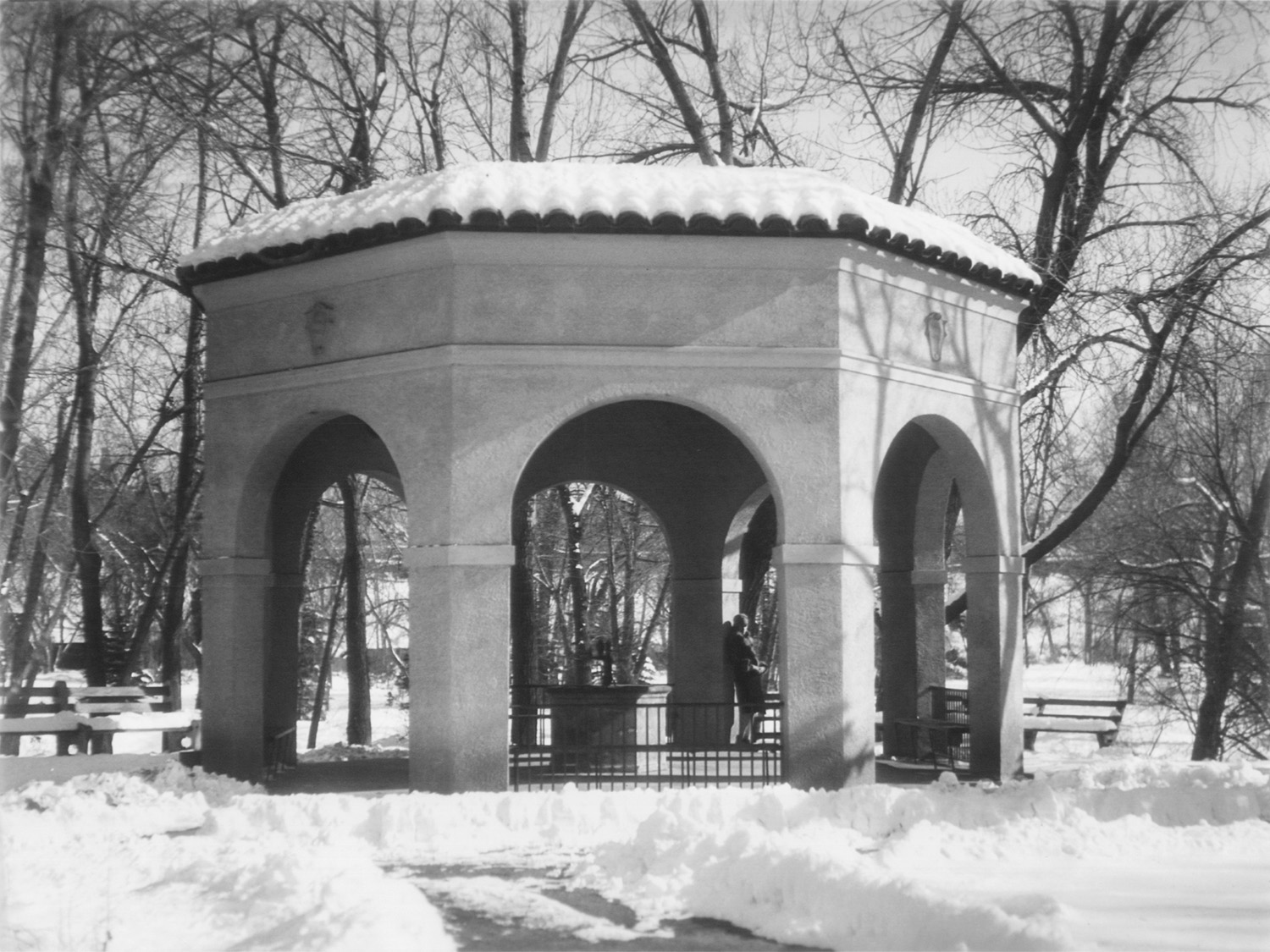 Tahama Spring is a mineral spring in Monument Valley Park in Colorado Springs. Named by the city’s founder, General William Jackson Palmer, the spring honors Chief Tahama, famed Indian scout of Zebulon Montgomery Pike. When the local Parks Board commissioned the pavilion in 1926 to commemorate these early pioneers, the name “Tahama Spring” was selected and inscribed on decorative limestone-carved cartouches above each entrance. The structure was built as a memorial to “Tahama, the native; Lieut. Zebulon Pike, the explorer, and Gen. William J. Palmer, the founder.”